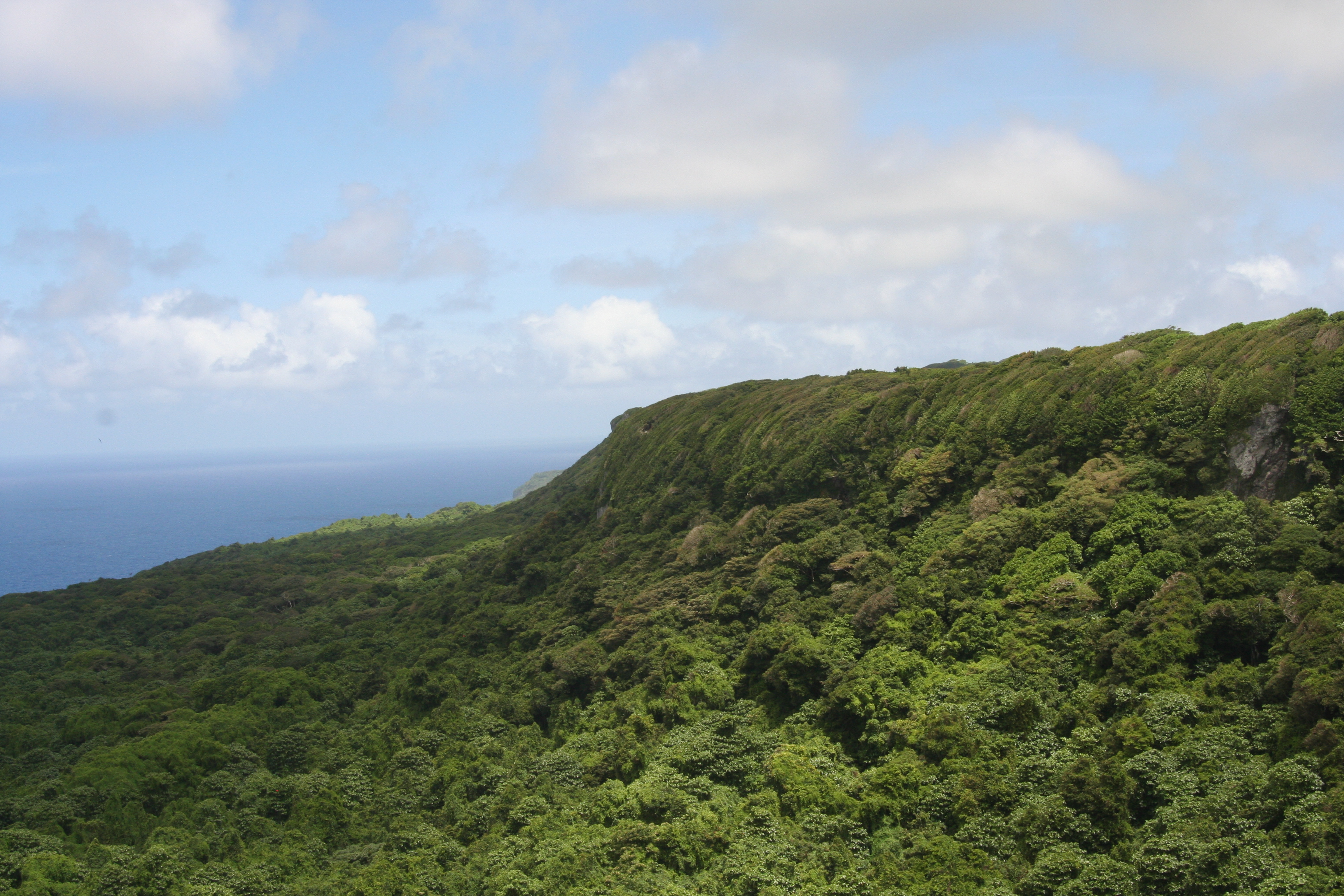 The eastern side of the island of 'Eua in Tonga is dominated by a protected are known as 'Eua National Park. This is a view of the park looking south from a platform on the edge of the park.